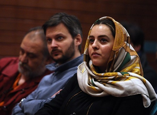 اختتامیه جایزه عکس شید